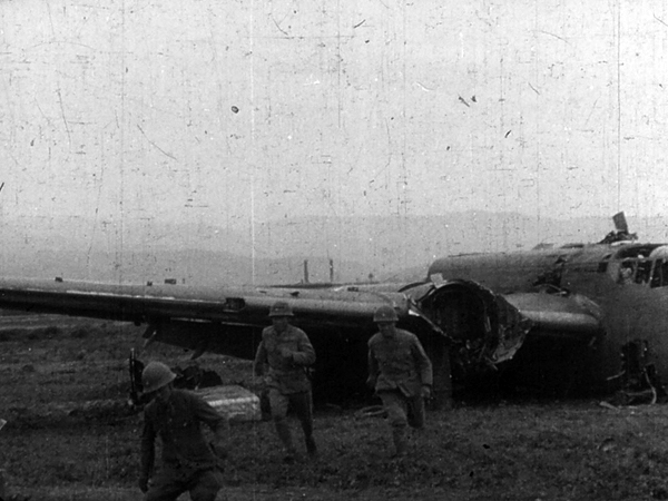 Giretsu Kuteitai's are exercising to blow up alumunium made aircrafts with the help of a mockup, 1945.